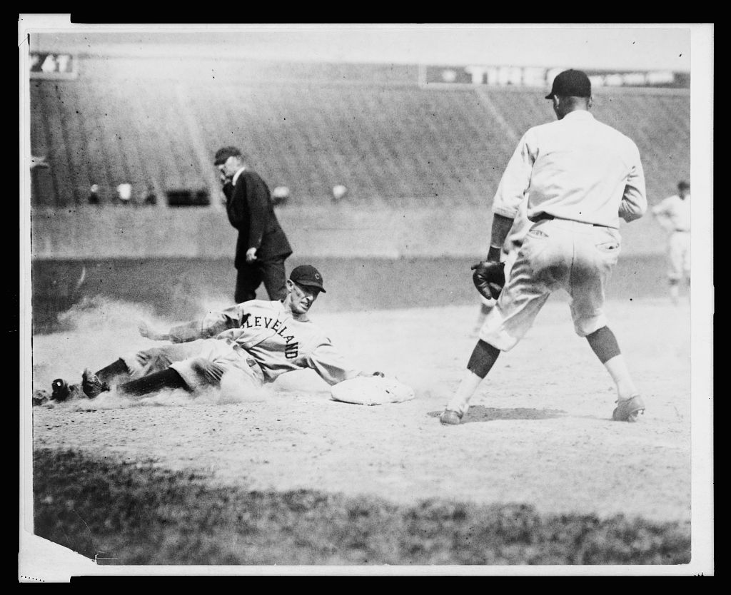 Baseball player Wilson "Chick" Fewster of the Cleveland Indians slides into third base during a game against the Washington Senators.